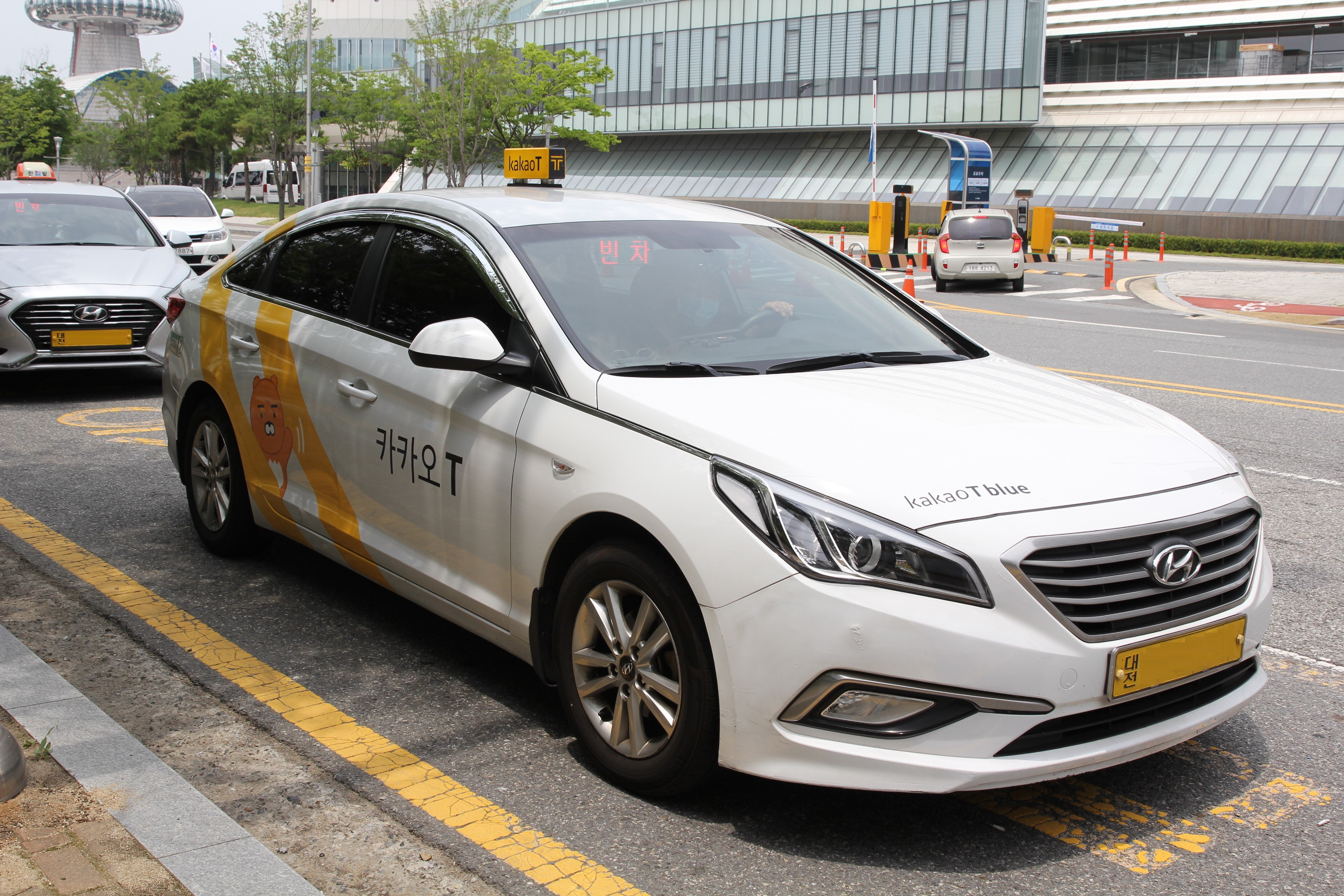 A Kakao Taxi branded taxi cab in Daejeon, South Korea. License plates have been edited out for libel reasons so I can easily post this on the Korean language wiki without issue.